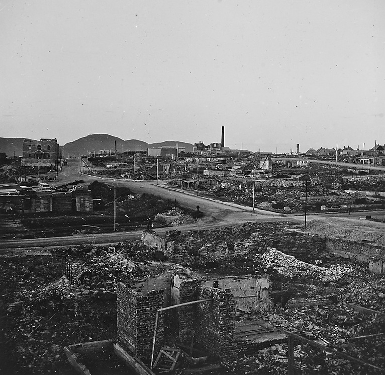 Image from "Photo Album from Terboven's journey to Nothern Norway and Finland 10–27 July 1942" (Mit dem Reichskommissar nach Nordnorwegen und Finnland 10. bis 27. Juli 1942), 375 images uploaded to www. by Riksarkivet (National Archives of Norway) 2012. See scanned album here